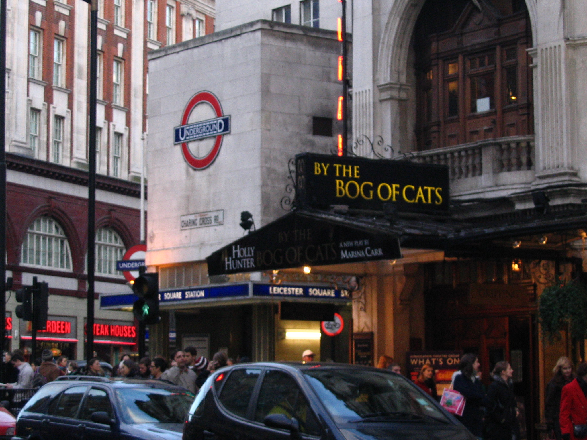 'By The Bog of Cats...' by Marina Carr at Wyndhams Theatre, Charing Cross, London in 2005